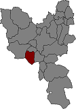 Location of Aiguaviva in Gironès